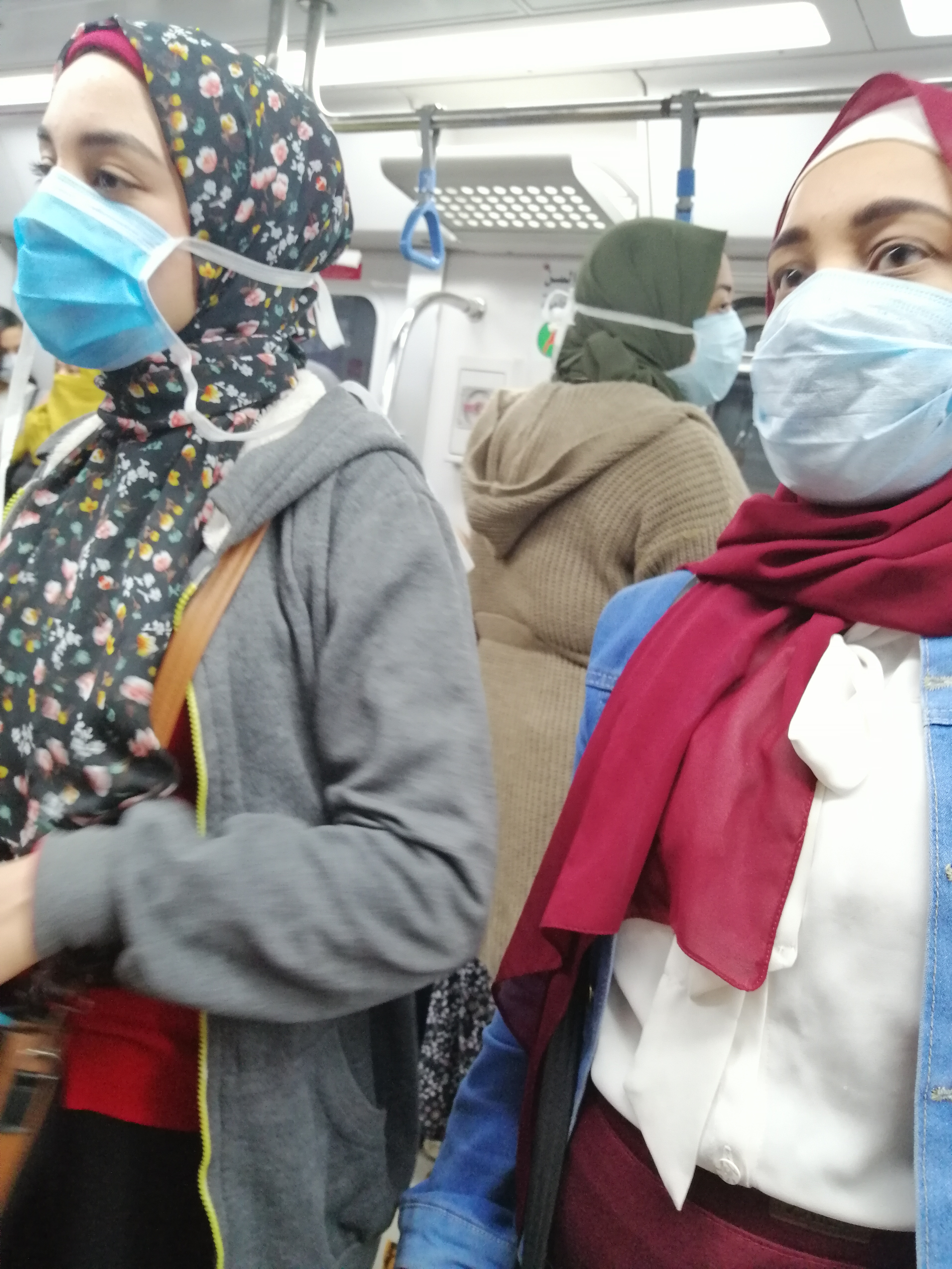 Inside a female metro train, corona virus Covid19, Egypt, 2020.